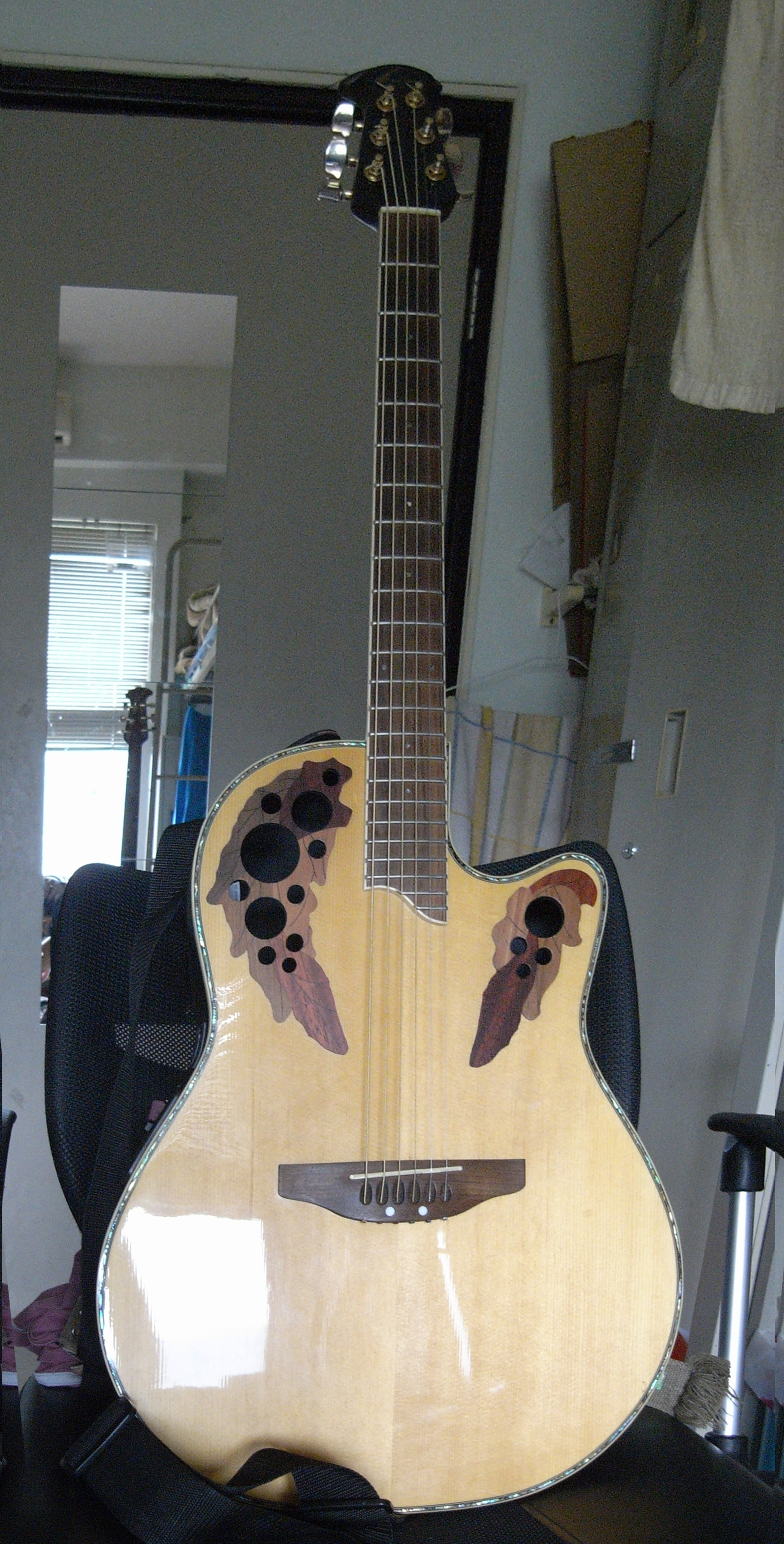 Ovation Celebrity CC44